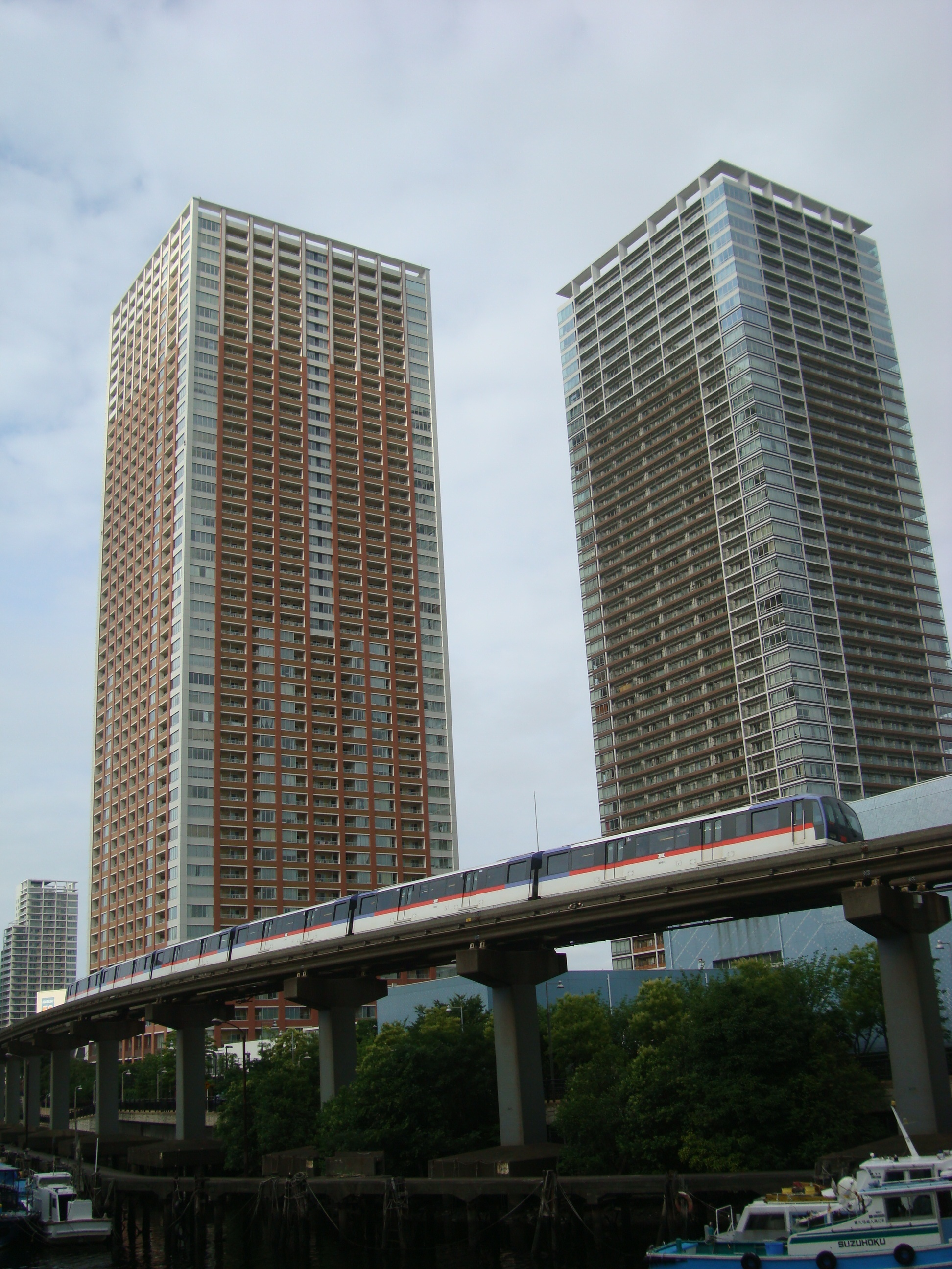 Apartment towers at the Shibaura Island complex and Tokyo Monorail trains running along Shibaura-Nishi canal